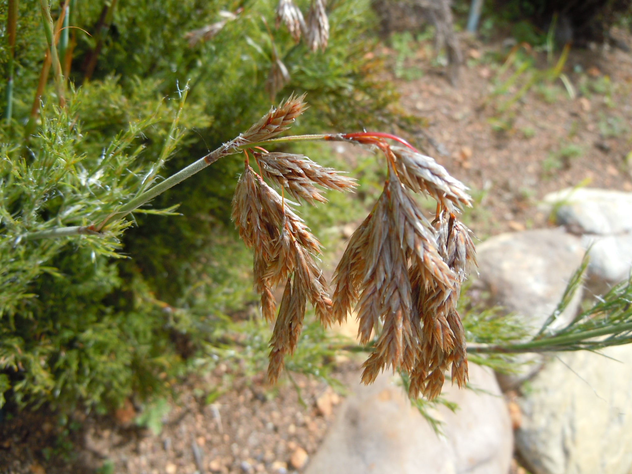 Thamnochortus cinereus close-up. Kirstenbosch, Cape Town, South Africa.